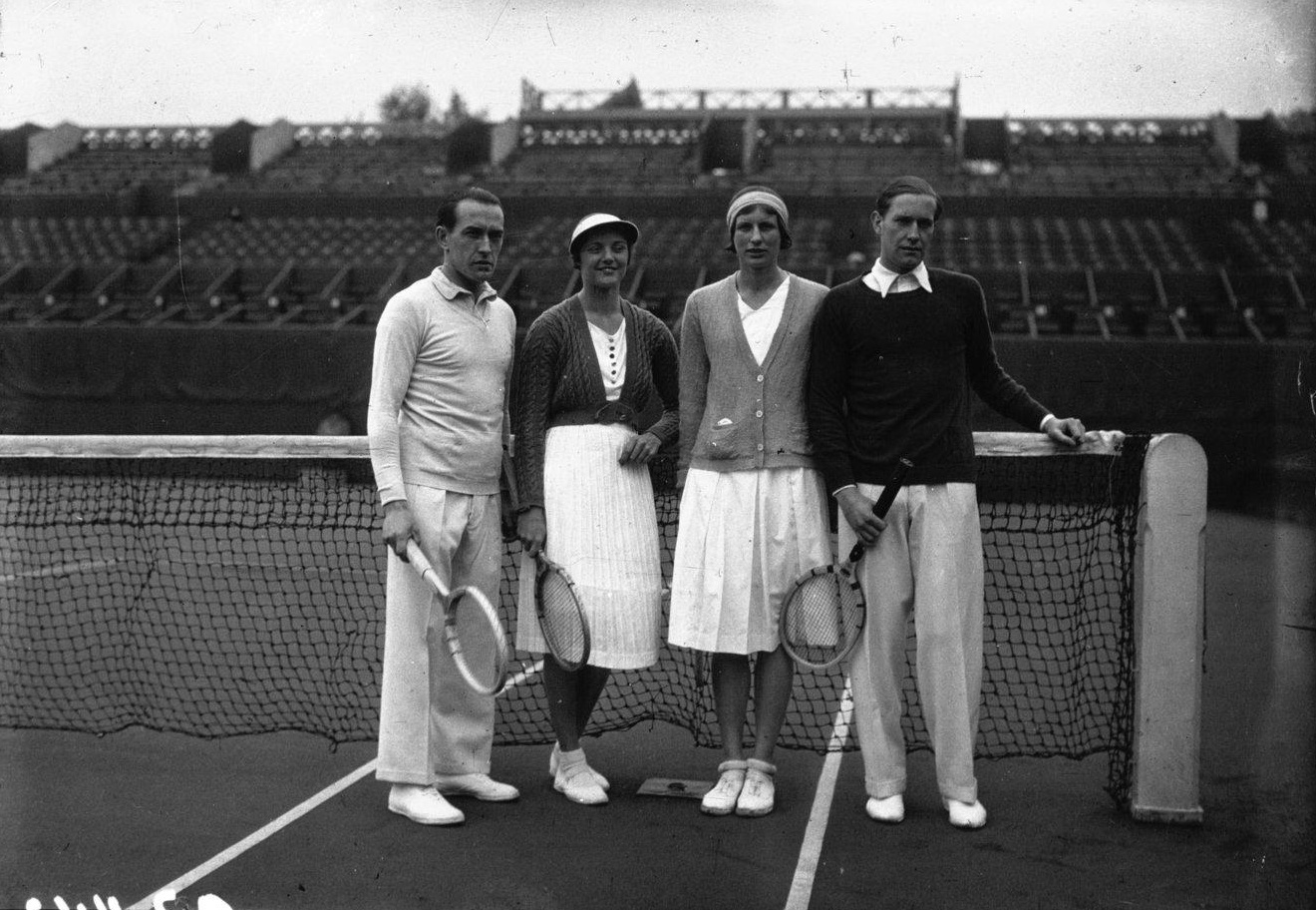 Group of tennis players at the Stade Roland Garros, 1932 French Championships. From left: Henri Cochet (1901-87) Eileen Bennett Whittingstall (1907-79) Hilde Krahwinkel (1908-81) Gottfried von Cramm (1909-76) Picture is likely to have been taken before or after the quarterfinal match (Whittingstall/Cochet d. Krahwinkel/von Cramm 3-6 6-2 6-3)